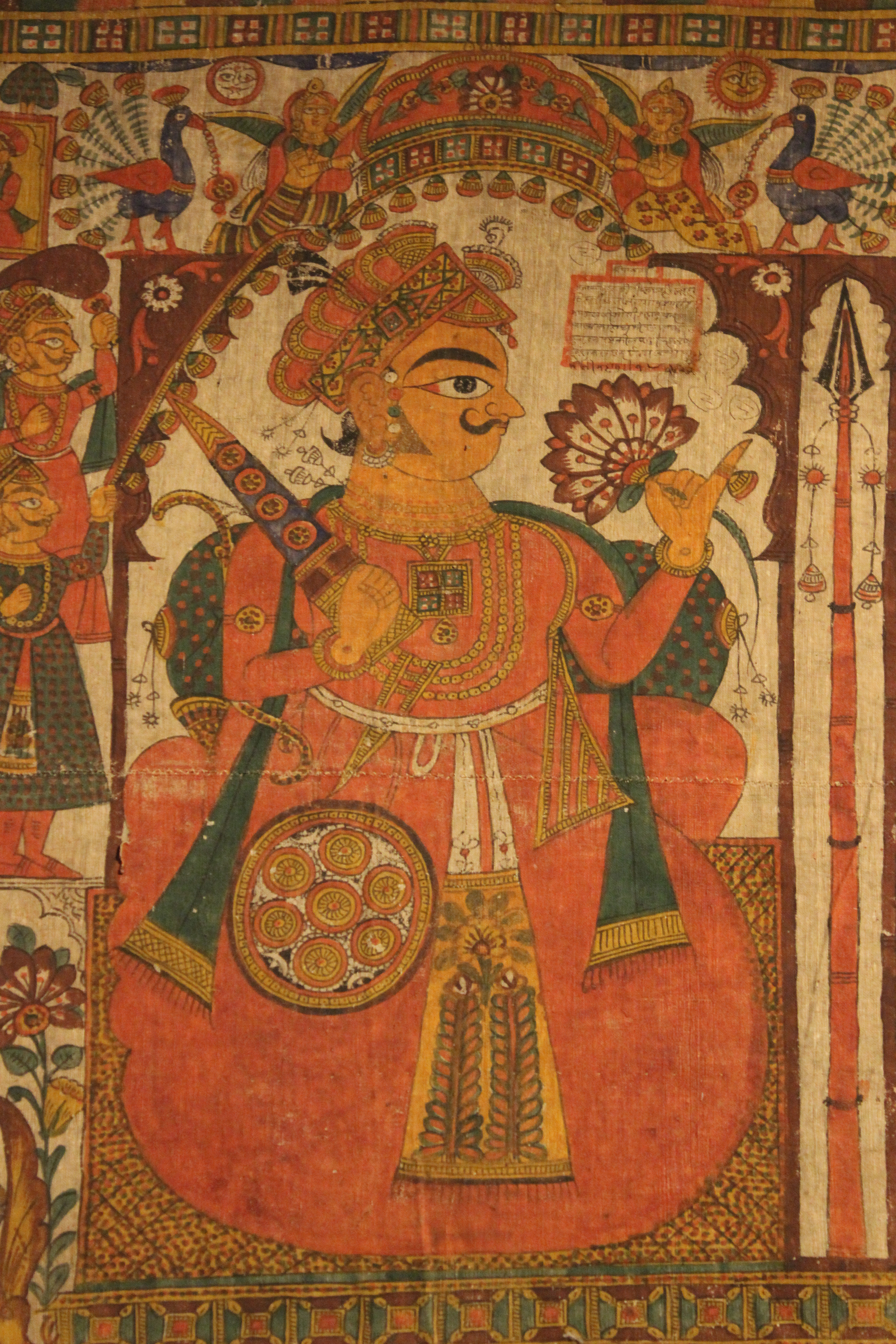 a part of pabuji ka phad as displayed in the National Museum, New Delhi during the exhibition of the Body in Indian Art